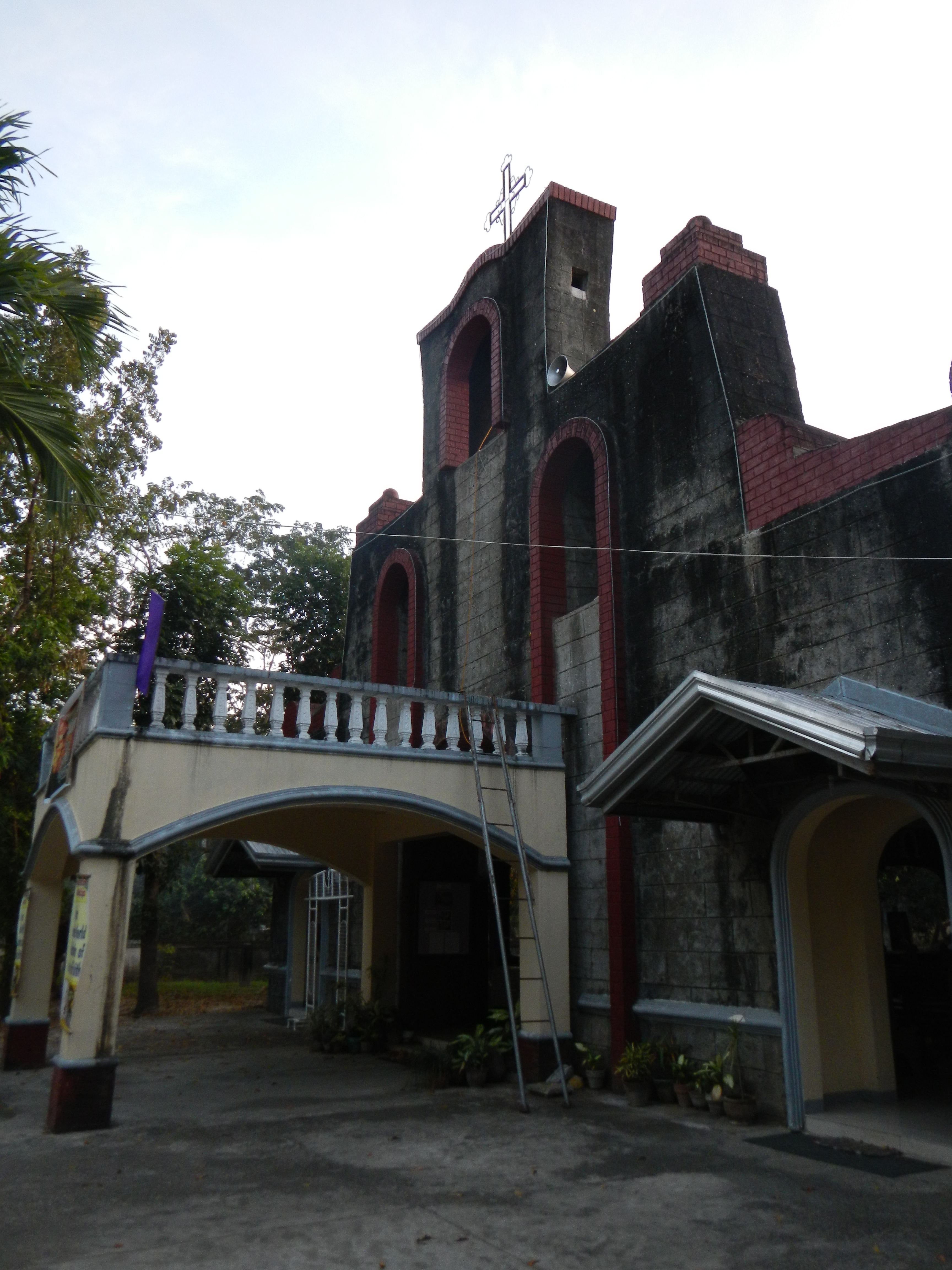 1950 Immaculate Conception Parish Church of Nampicuan, Nampicuan, 3116 Nueva Ecija[1] Titular: Immaculate Conception Current Parish Priest: Father Josix R. Tolentino, Former Parish Priest -Father Menardo Natividad Dialect: Tagalog, Ilocano Population: 11,177 Catholics: 0.9% Vicariate of St. John[2]Coordinates: 15°43'56"N 120°38'5"E [3] [4][5] [6]The Roman Catholic Diocese of San Jose in the Philippines (Lat: Dioecesis Sancti Iosephi in Insulis Philippinis) is an ecclesiastical territory or diocese of the Latin Rite of the Roman Catholic Church in the Philippines.[7]